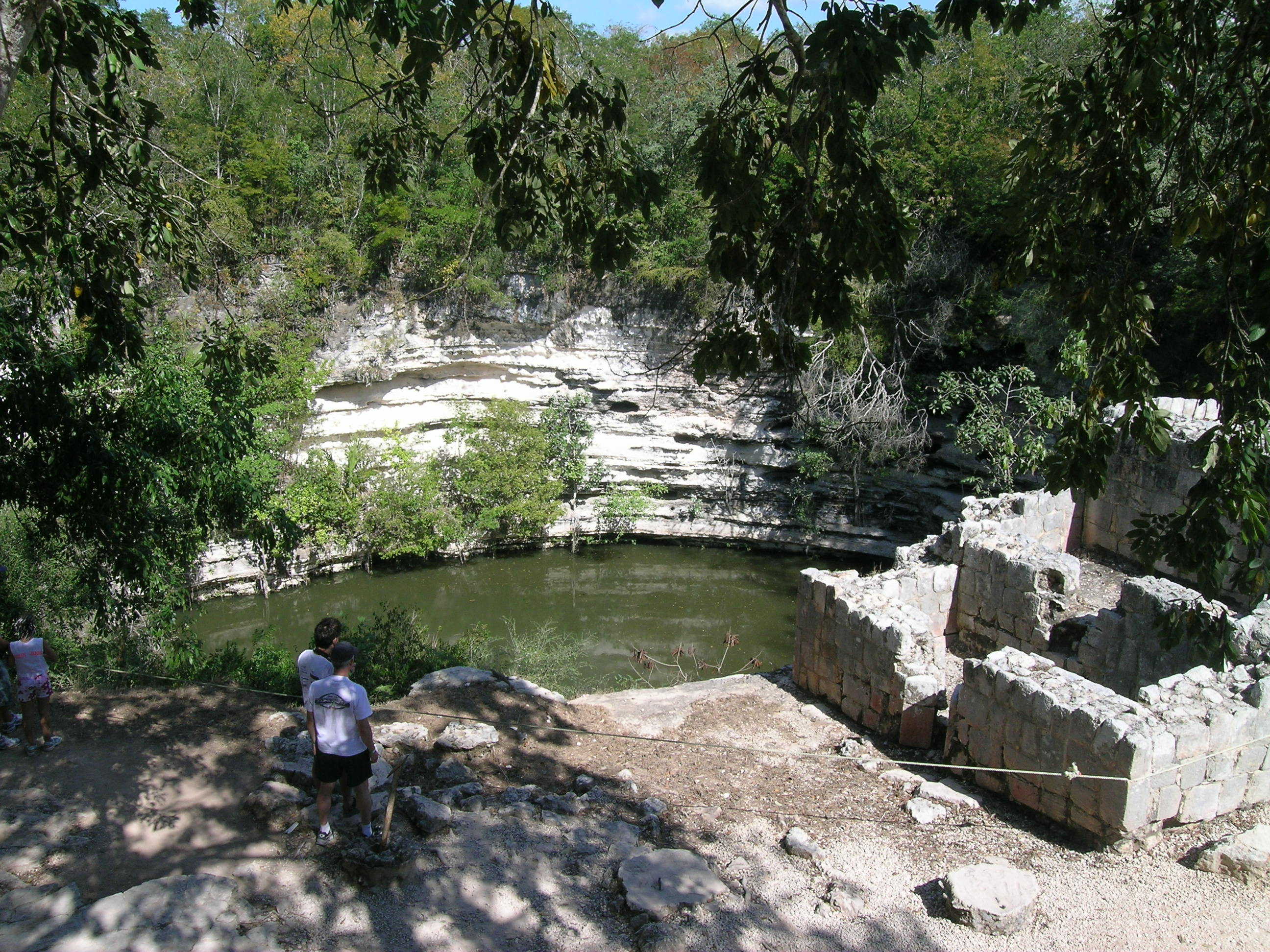 Xtoloc Cenote at Chichen Itza